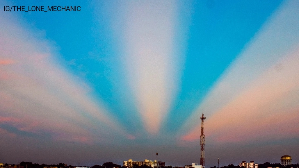 The Eastern side of the City Kalol, Dist. Gandhinagar, Gujarat, India